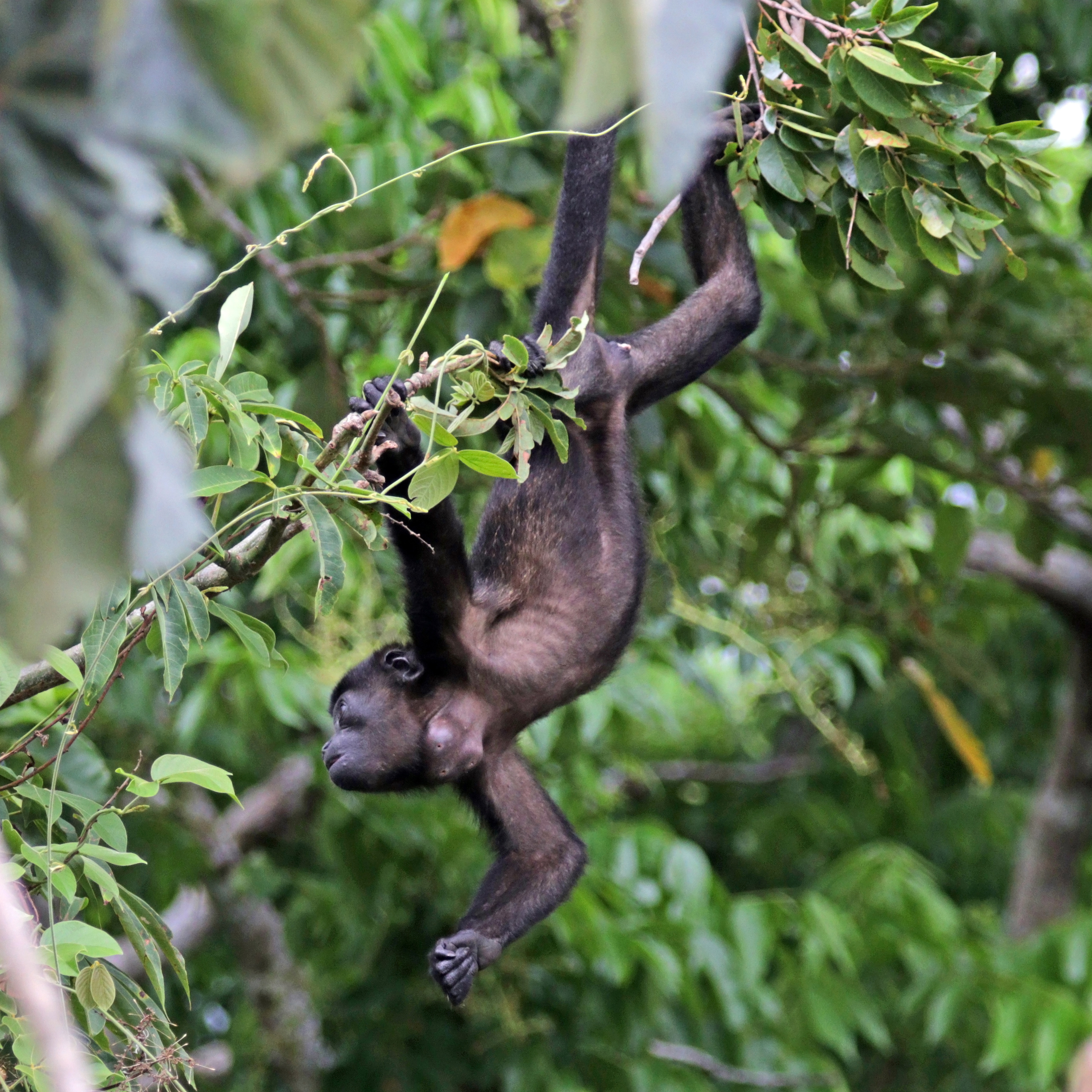 Ecuadorian mantled howler (Alouatta palliata aequatorialis) juvenile male with botfly (Oestridae sp.) parasites, Gatun Lake, Panama